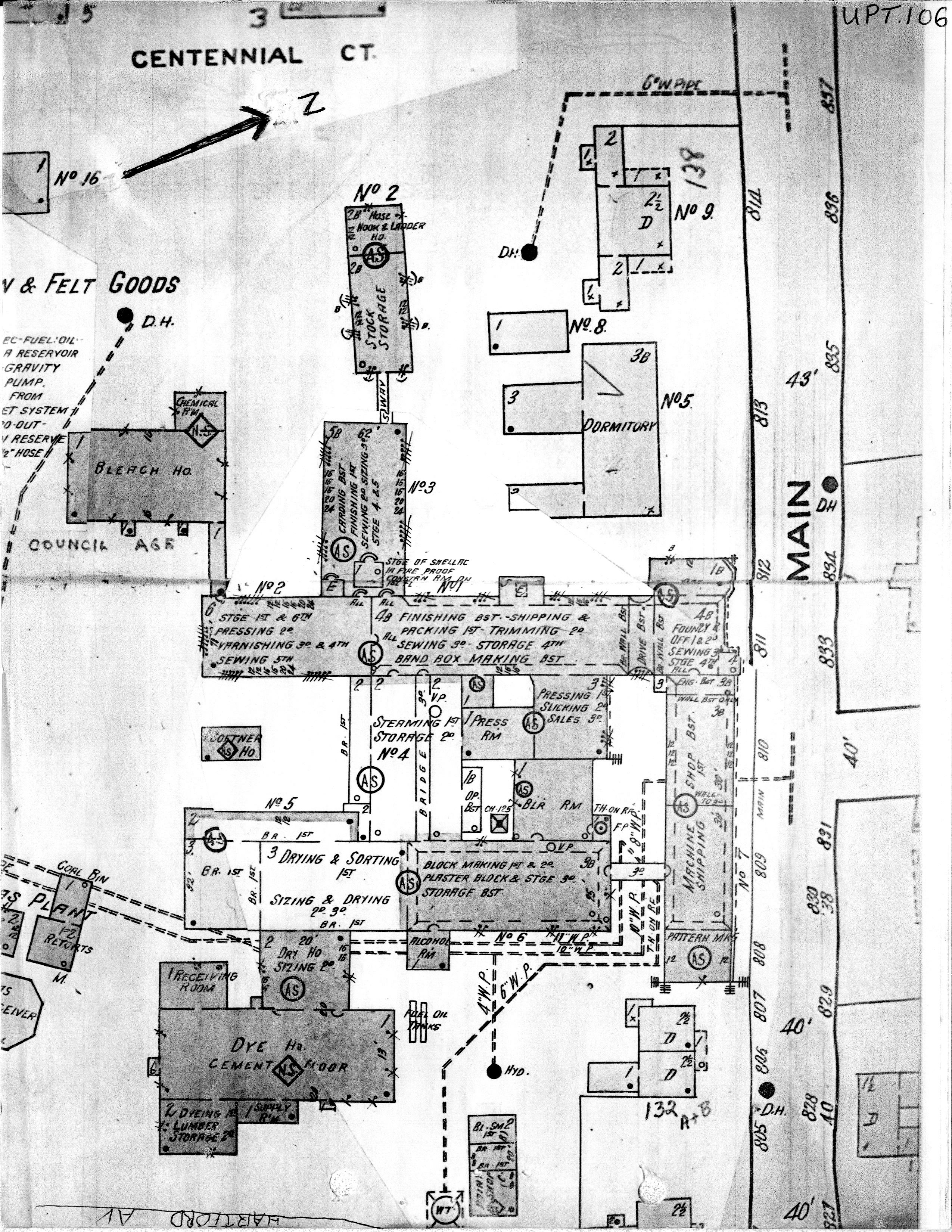 A turn of the century blueprint of the Knowlton Hat Factory Campus